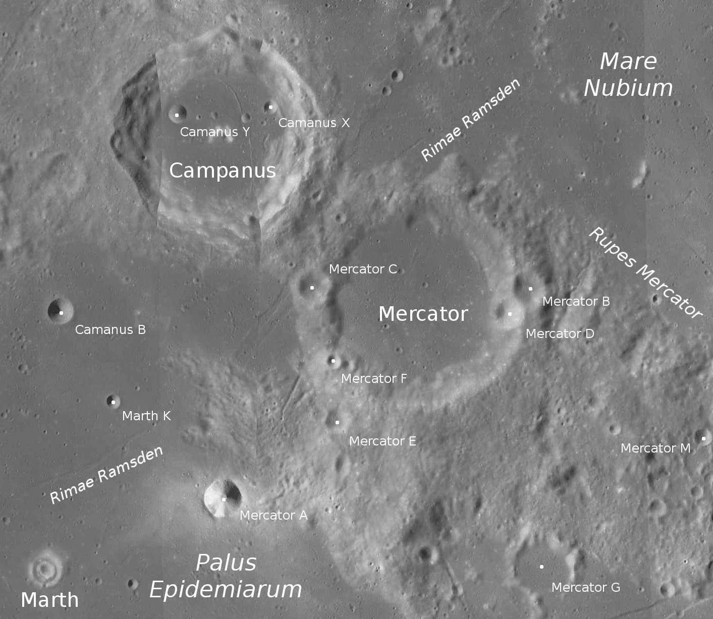 Craters Campanus and Mercator (detail of LRO - WAC global moon mosaic; Mercator projection)